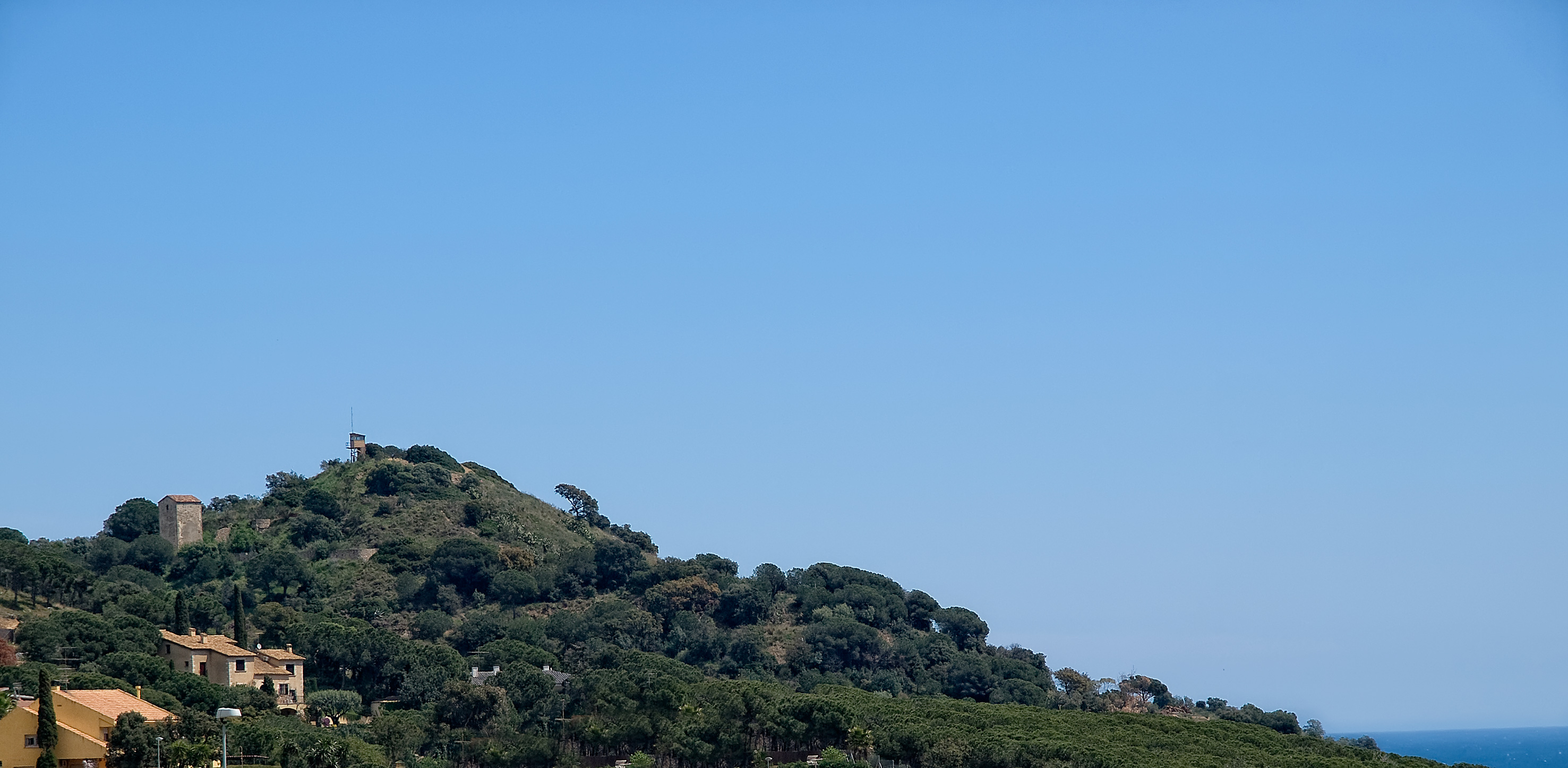 Onofre Arnau Hill & Mata Castle (Mataró, Catalonia, Spain)